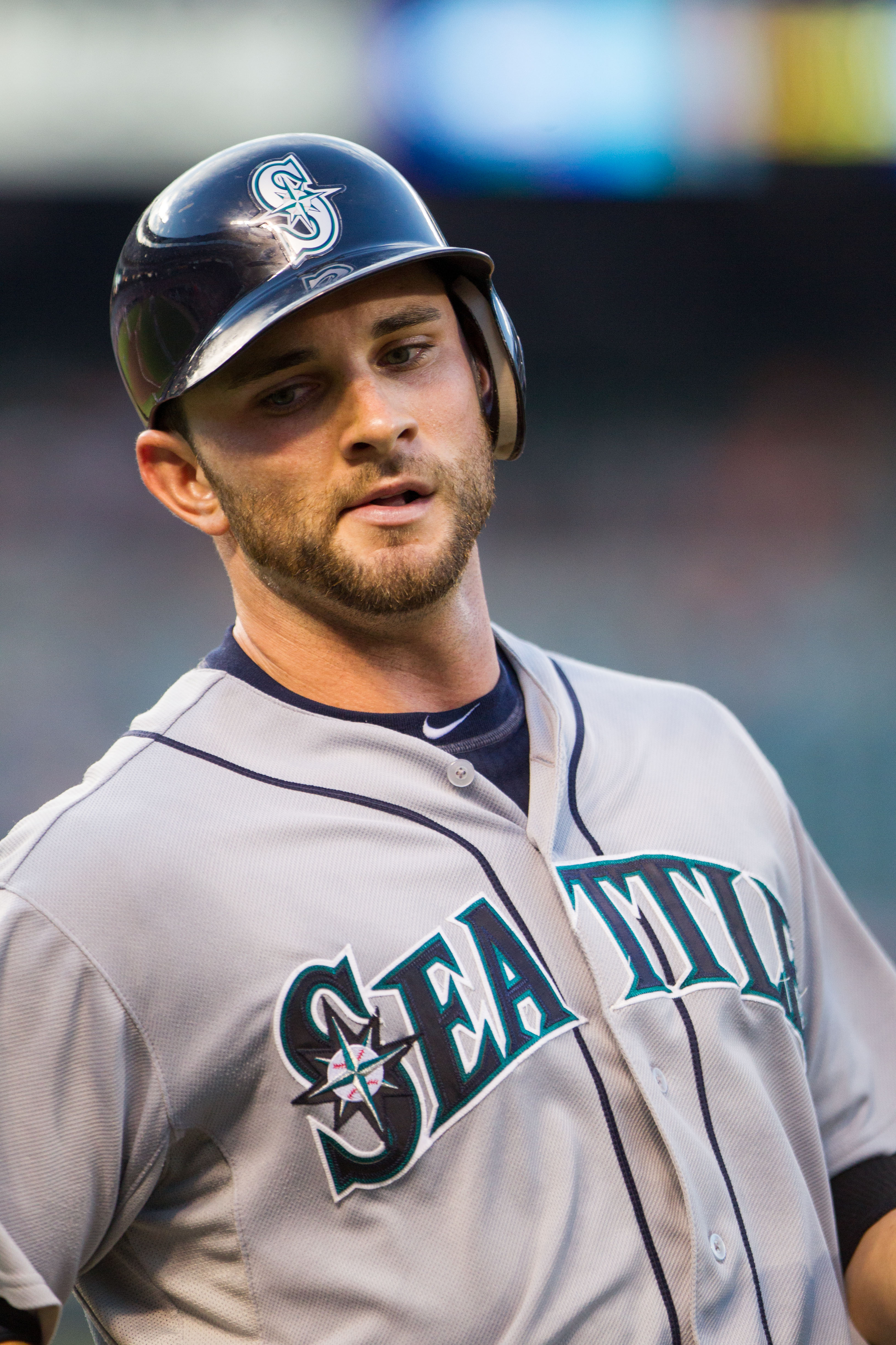 Seattle Mariners outfielder Casper Wells – Mariners at Orioles August 6, 2012